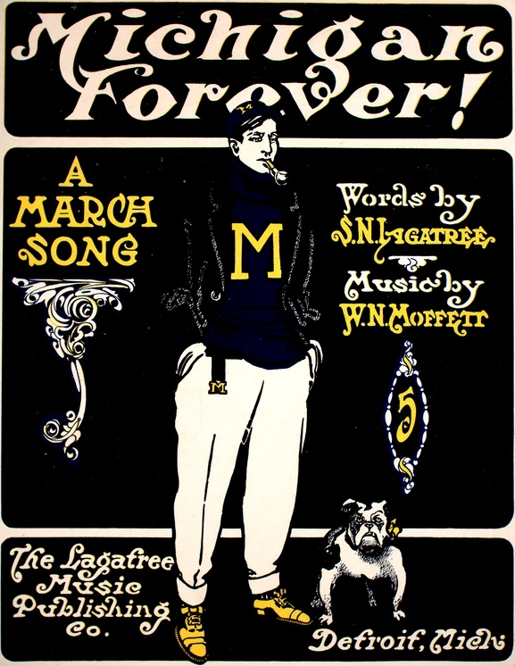 Cover page of sheet music for song, "Michigan Forever!" Published in 1906 by The Lagatree Music Publishing Co., Detroit